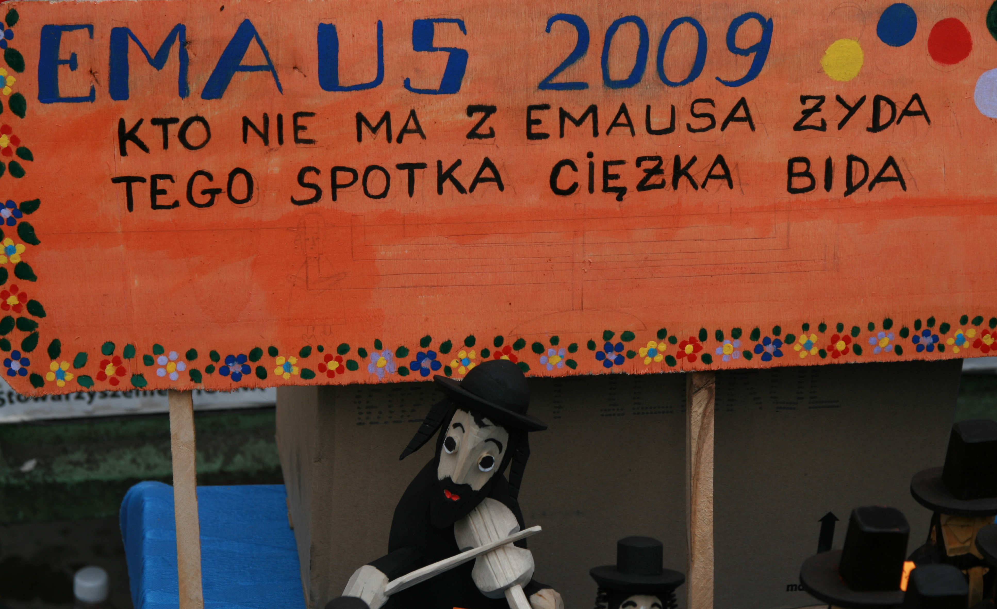 Krakow, Emaus